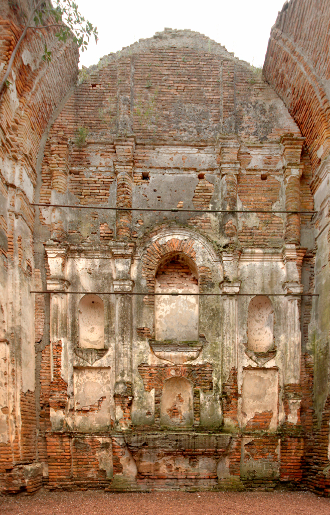 Calera de las Huérfanas. Colonia. Uruguay